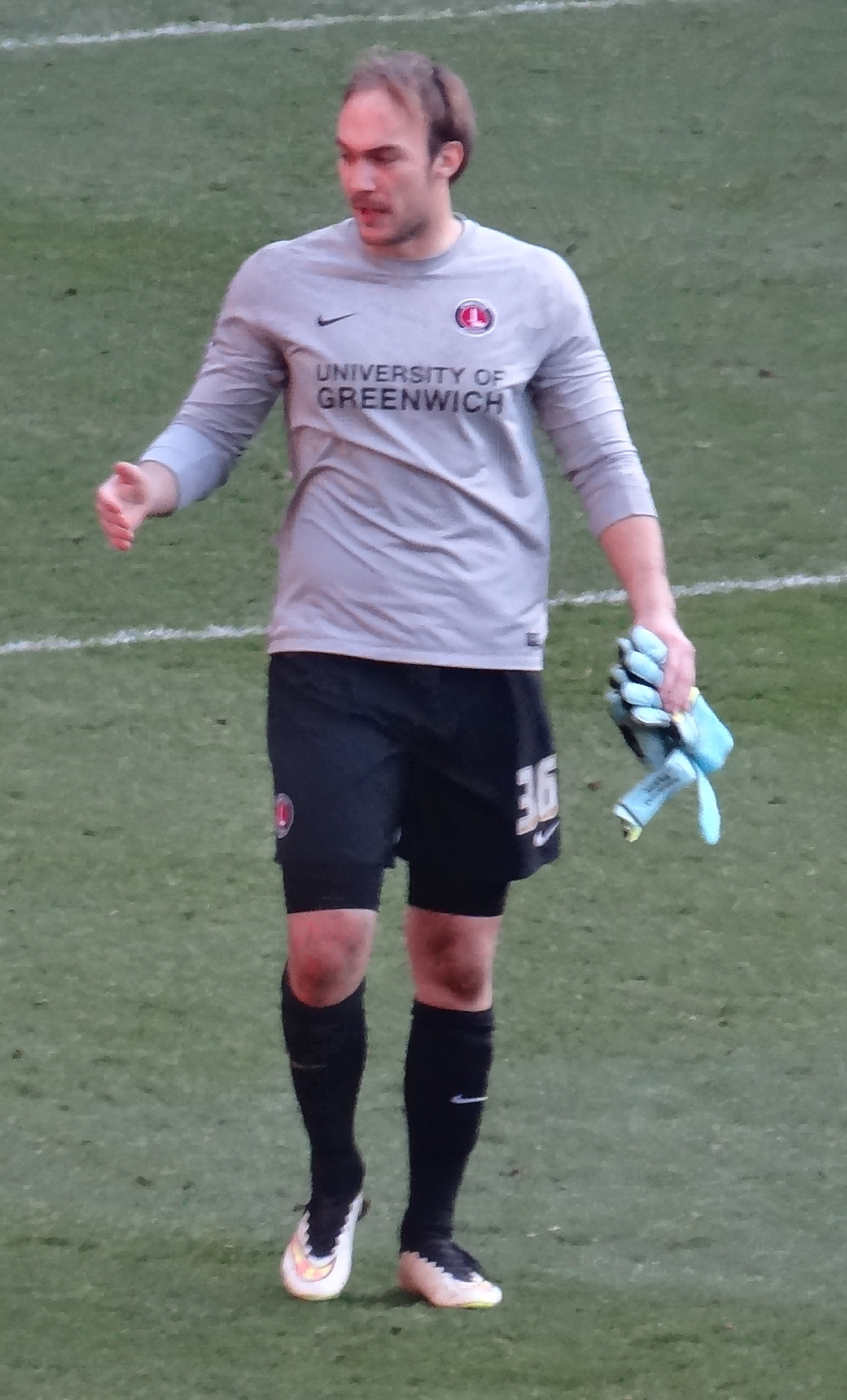 Footballer Marko Dmitrovic in 2015.